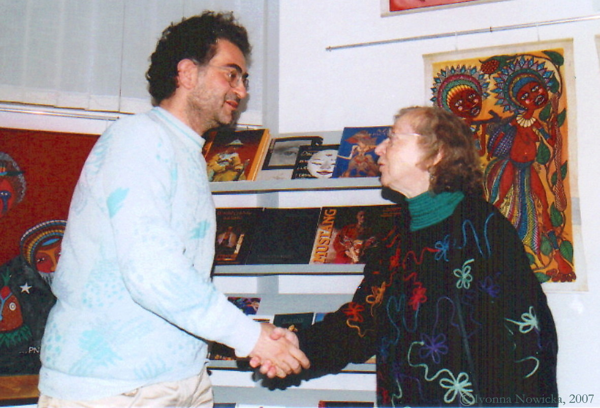 The moment two Esperantists, Polish Zofia Banet-Fornal and Iranian Alireza Doulatshahi greet captured by Ivonna Nowicka at the Nusantara Gallery (former branch of the Museum of Asia and the Pacific), 18a Nowogrodzka Str., Warsaw on April 2, 2007 on the occassion of Doulatshahis lecture "The Persian New Year" delivered there in Esperanto.